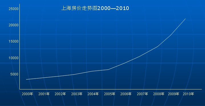 House Price in Shanghai for 2000—2010